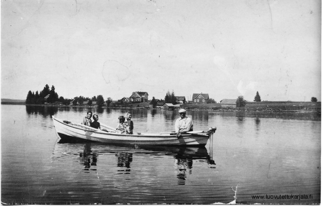 Rowers on lake Suojärvi, in the Finnish Karelia ceded to the Soviet Union in 1944